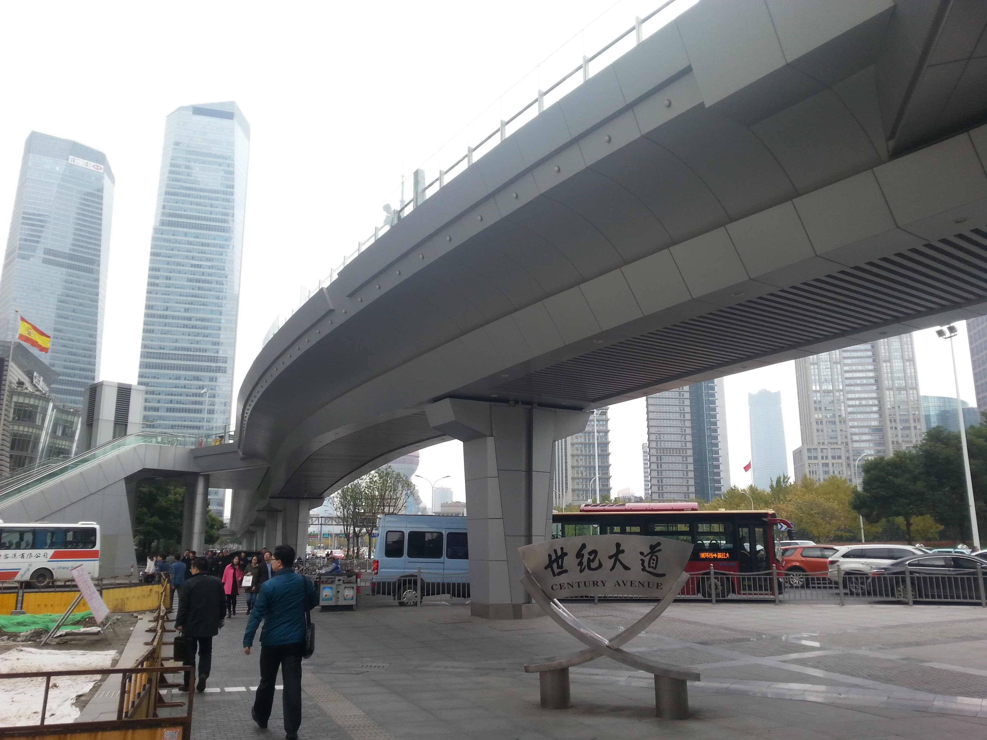 A photo of century avenue in Shanghai